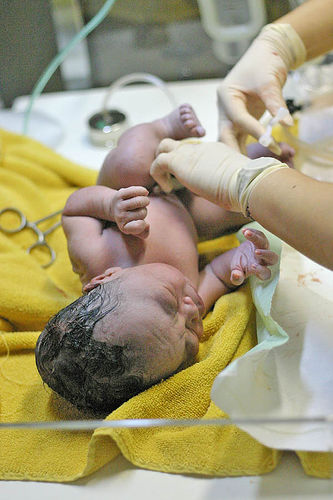 A newborn baby with umbilical cord ready to be clamped